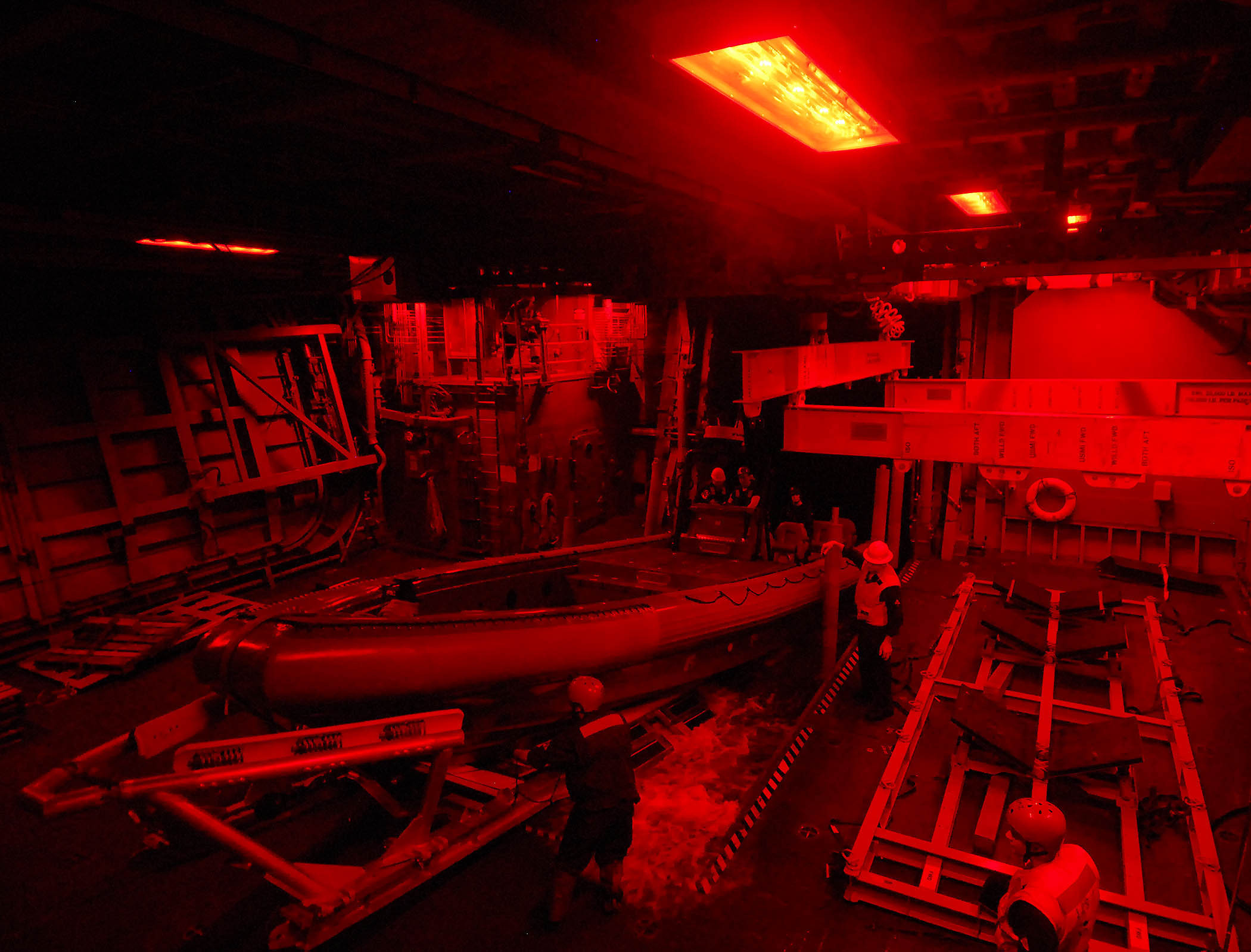 CARIBBEAN SEA (Feb. 25, 2010) A rigid-hull inflatable boat is launched from the waterborne mission zone of the littoral combat ship USS Freedom (LCS 1) for a counter-illicit trafficking (CIT) patrol. Freedom is conducting CIT operations and theater security cooperation in the U.S. 4th Fleet area of responsibility. (U.S. Navy photo by Mass Communication Specialist 2nd Class A.C. Rainey/Released)